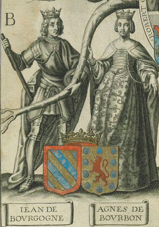 Jean de Bourgogne and Agnes de Bourbon, dukes of Bourbon